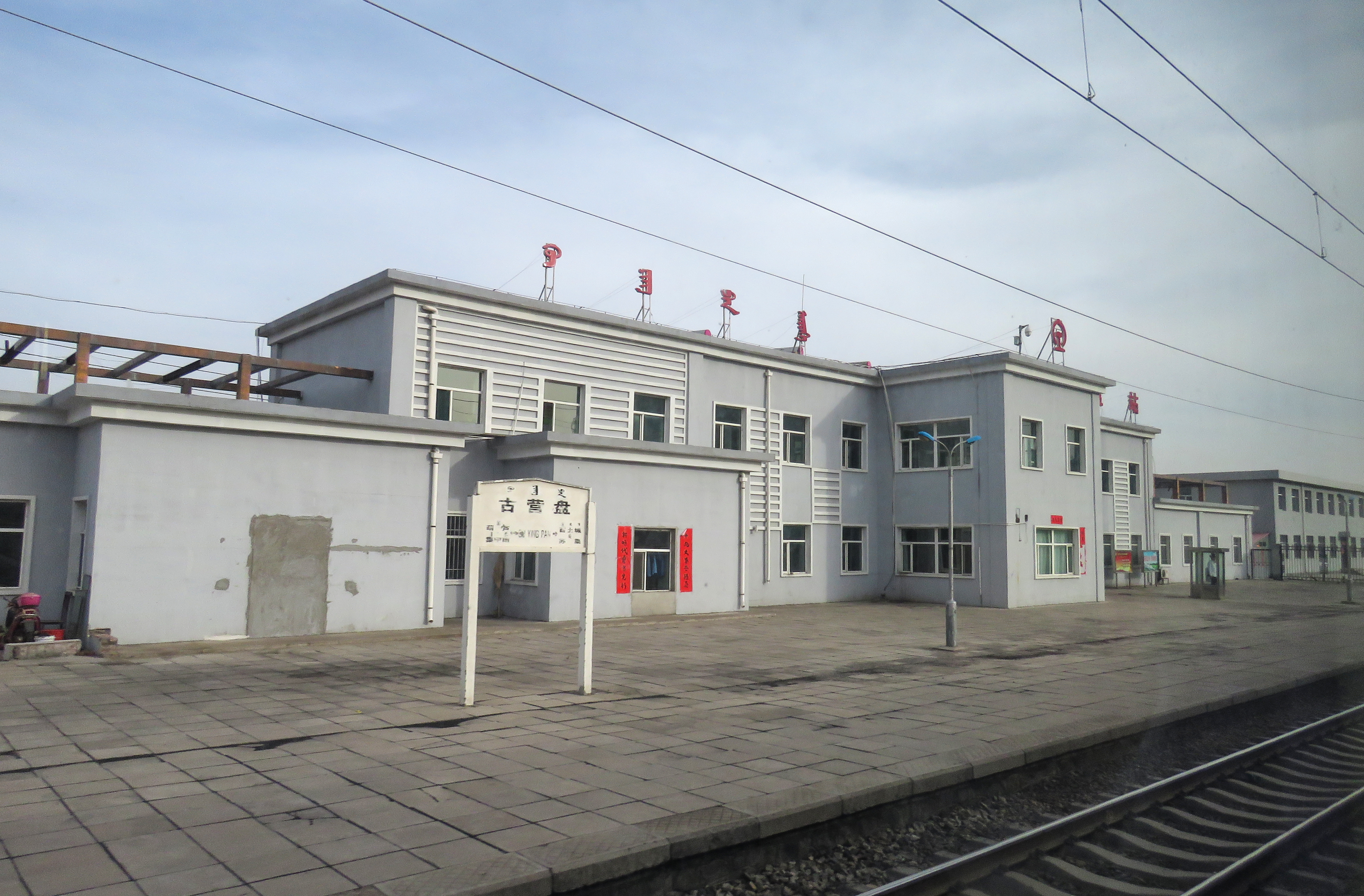 Next station: XITUCHENG, interchange station for Line 10... wait a minute, it's a namesake!